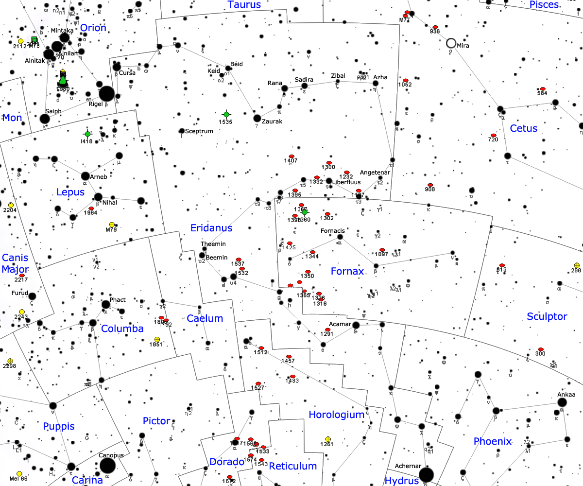 Map of Eridanus